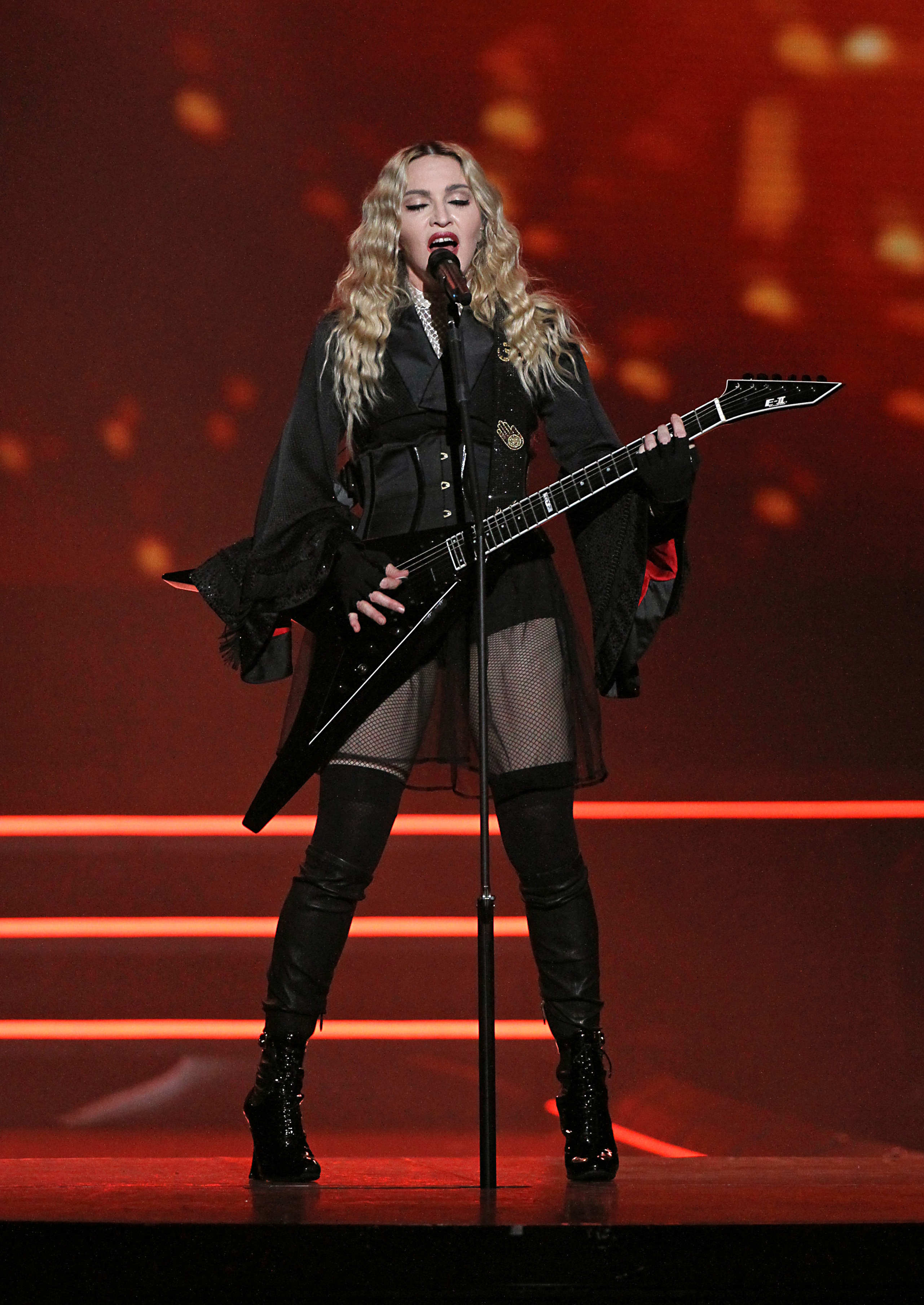 Madonna @ Xcel Energy Center, St. Paul, MN 10.8.15 Photo Copyright (billy briggs) Please do not steal, download or re-post my images without prior consent & proper credit. BLOGS INCLUDED! Most images are available as prints, however some are not due to contractual agreements. If you're interested in licensing an image or purchasing a print, please feel free to email me.